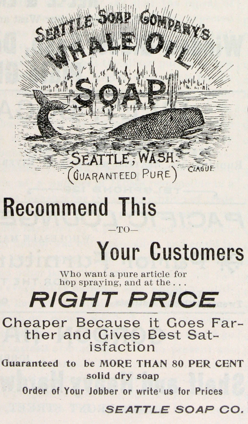 In 1886, C.B. Bussell and R.M. Hopkins started the Seattle Soap Works. Geographic coverage: United States Subjects (LCTGM): Soaps Categories: Health and hygiene; Nature and the environment; Commercial products